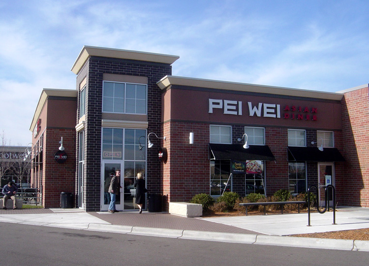 A Pei Wei Asian Diner in Eden Prairie. Photo taken by Bobak Ha'Eri, on November 16, 2006. Please observe license and properly cite in use outside Wikipedia.